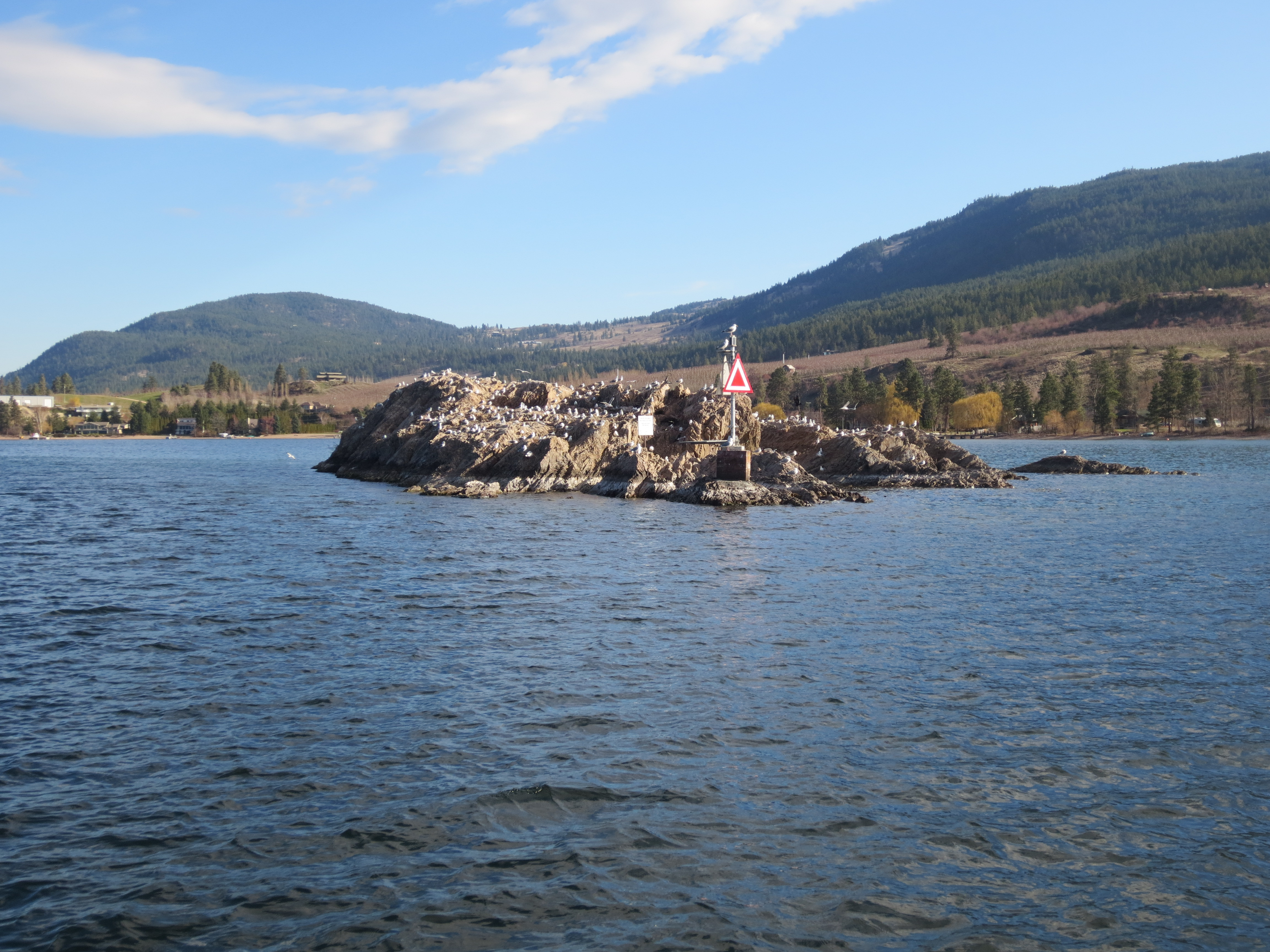 Late Winter view of western side of Grant Island, on Lake Okanagen, near Carr's Landing